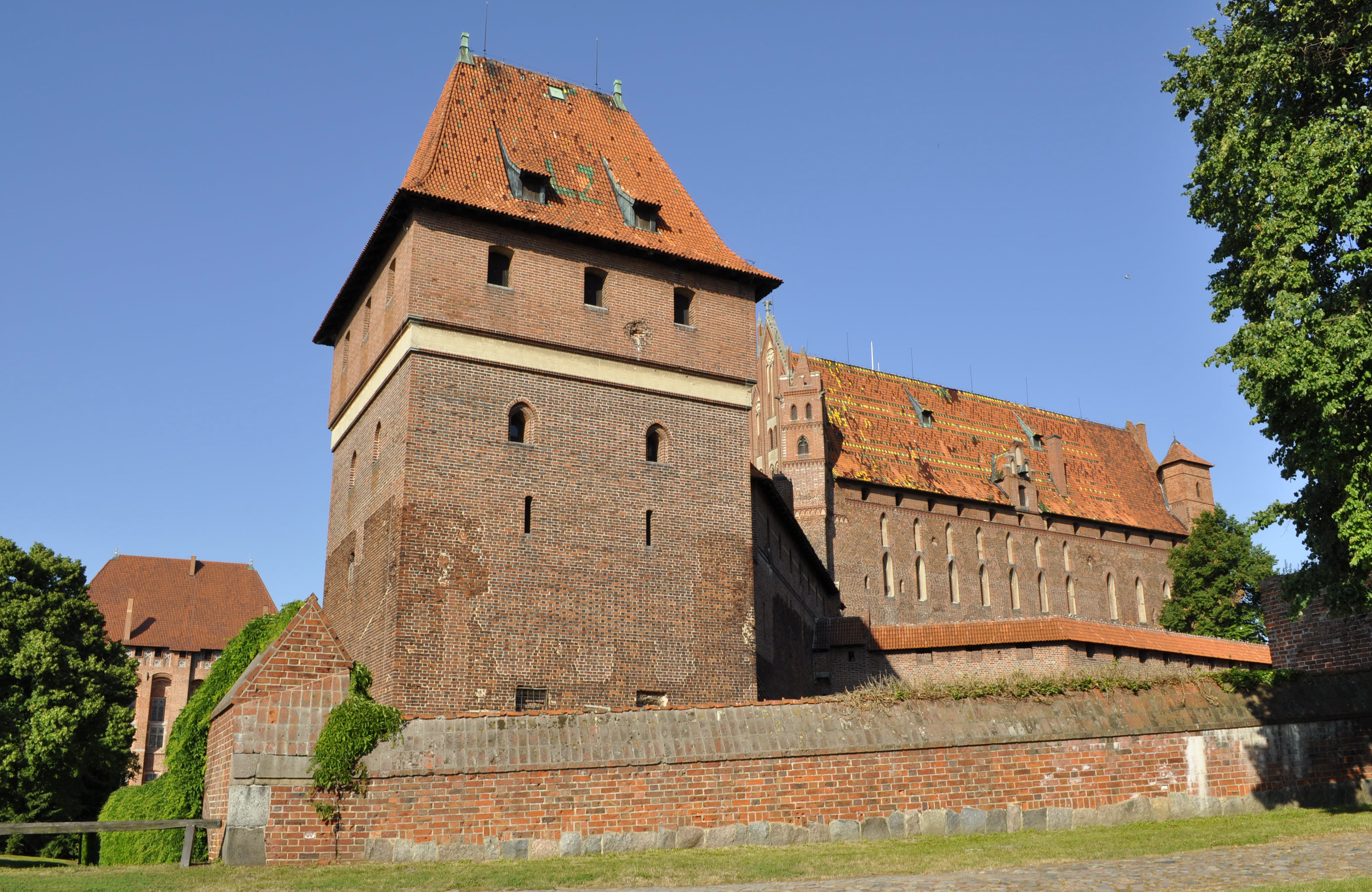 Picture taken in Malbork after Wikimania 2010 conference. Toilet tower in Malbork.